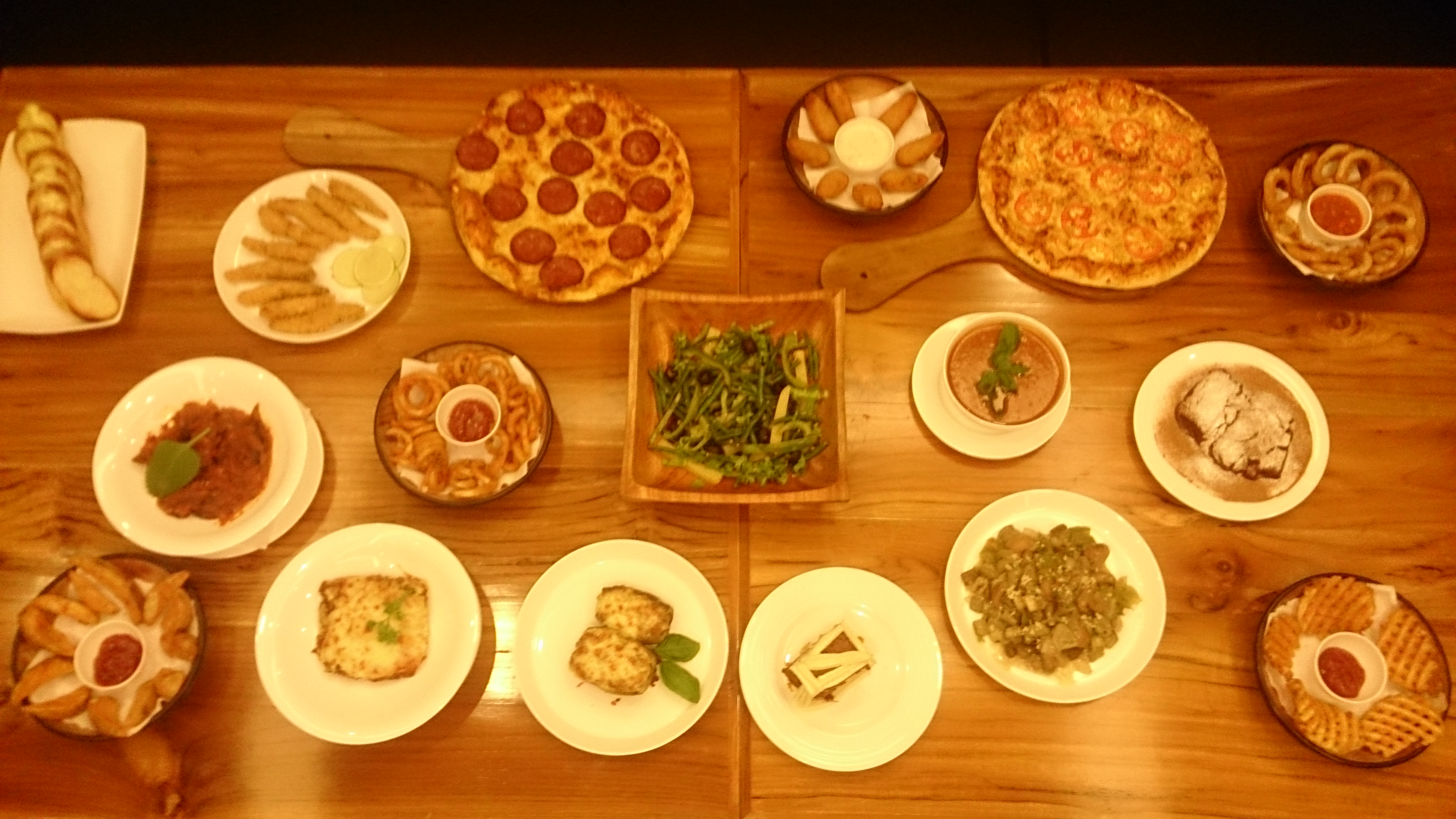 Italian dishes on a table, served at a restaurant in Dhaka, Bangladesh.